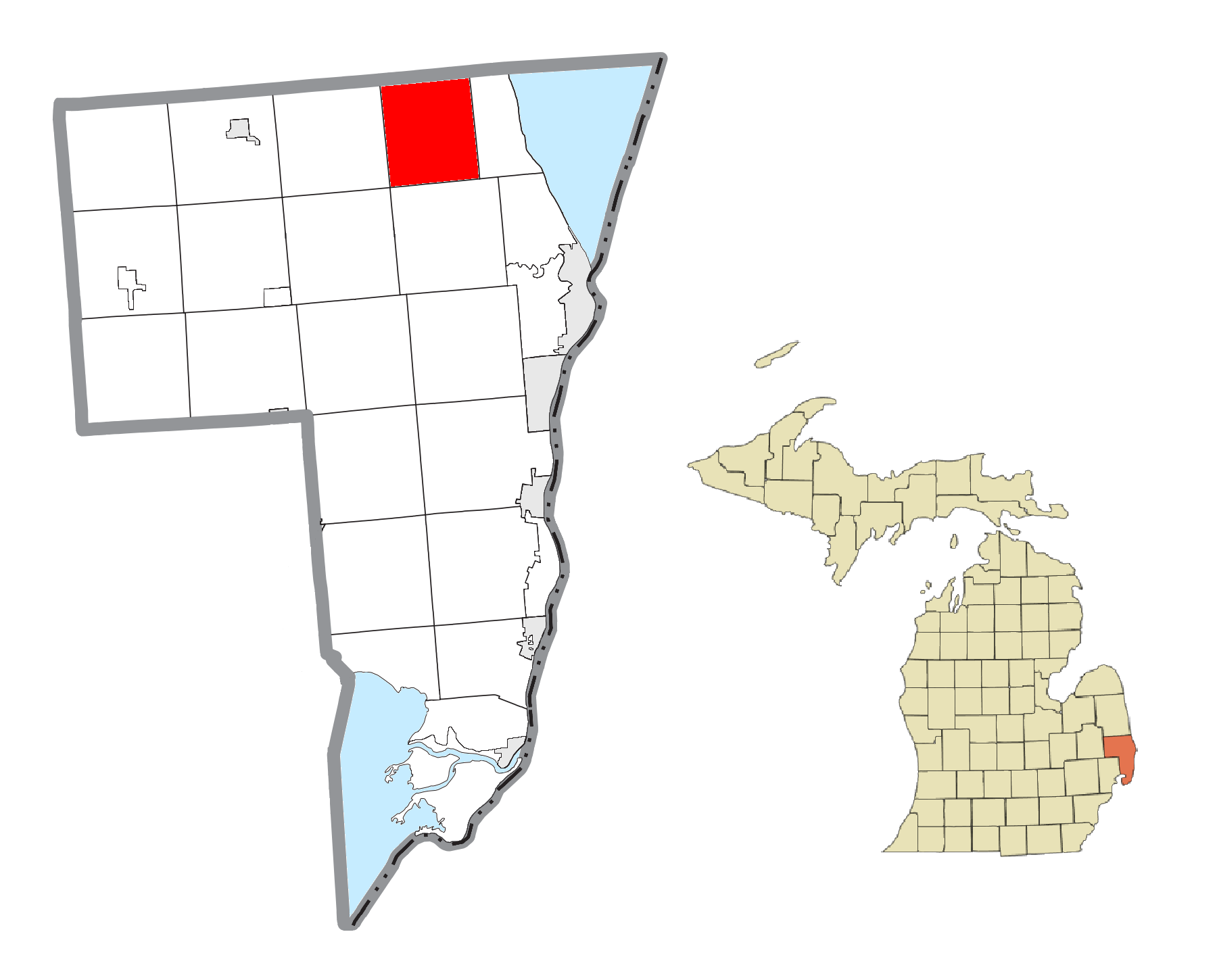 Grant Township (St. Clair), MI